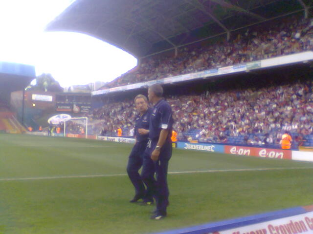 Crystal Palace F.C. manager Neil Warnock (left) and first team coach Keith Curle. Taken 23 August 2008.